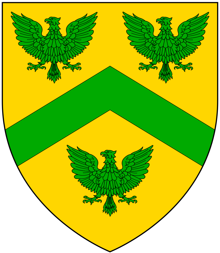 Arms of Bluett of Holcombe Rogus, Devon: Or, a chevron between three eagles displayed vert (Sources: Pole, Sir William (d.1635), Collections Towards a Description of the County of Devon, Sir John-William de la Pole (ed.), London, 1791, p.473; Vivian, Lt.Col. J.L., (Ed.) The Visitation of the County of Devon: Comprising the Heralds' Visitations of 1531, 1564 & 1620, Exeter, 1895, p.92) The tinctures and charges may reflect the family's supposed descent from Monthermer (Or, an eagle displayed vert beaked and membered gules)